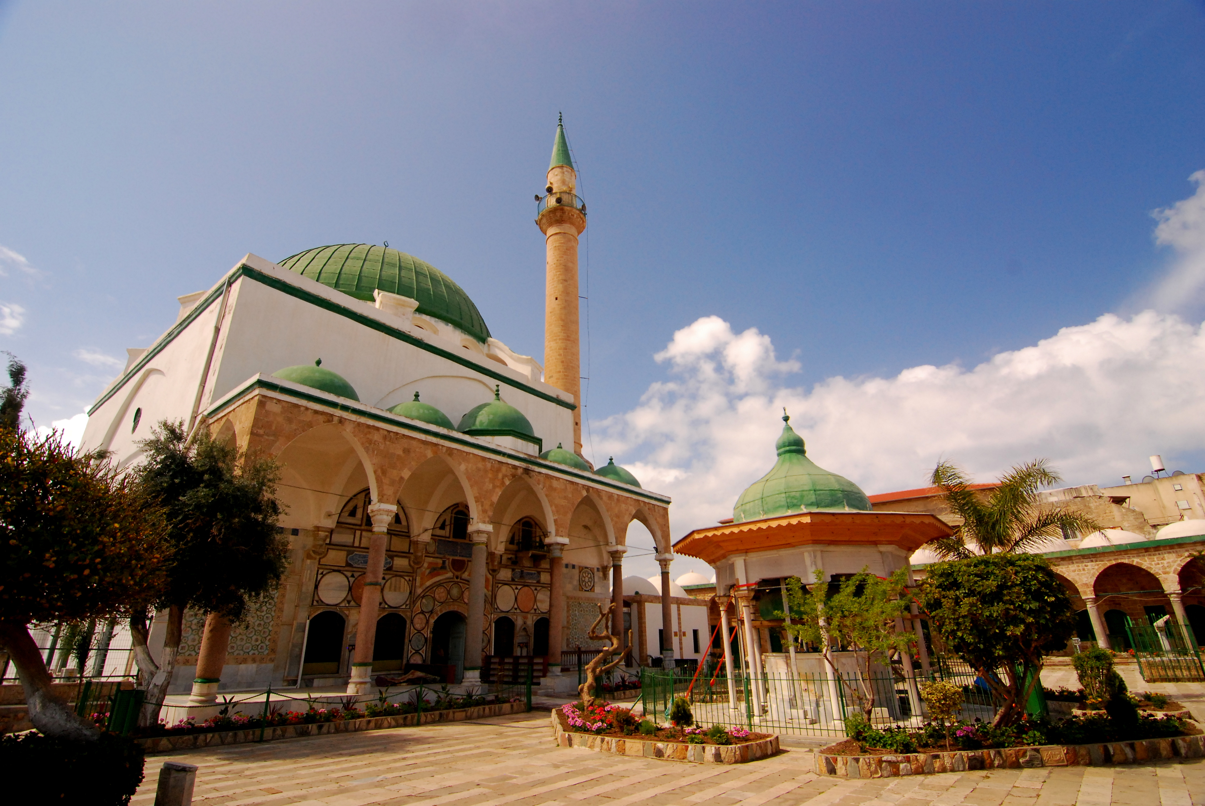 Al-Jazar mosque in old Acre